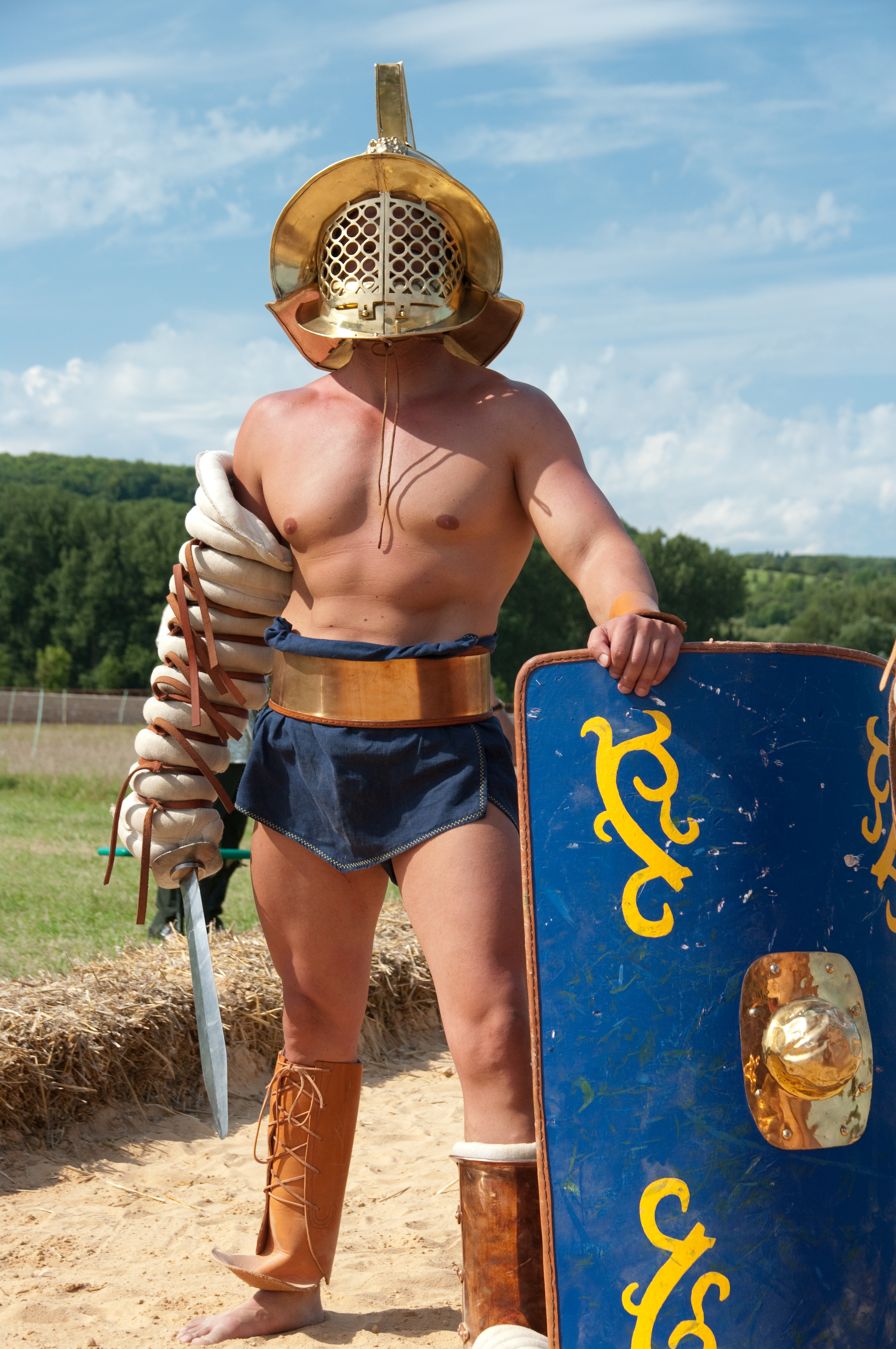 A mirmillo, member of Ludus Nemesis, a german gladiator school, in 2009.